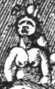 High Chiefess Kahakuhaʻakoʻi Wahine Piʻo, the sister of William Pitt Kalanimoku and governess of Maui.